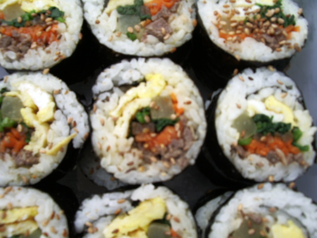 Close up of Gimbap)